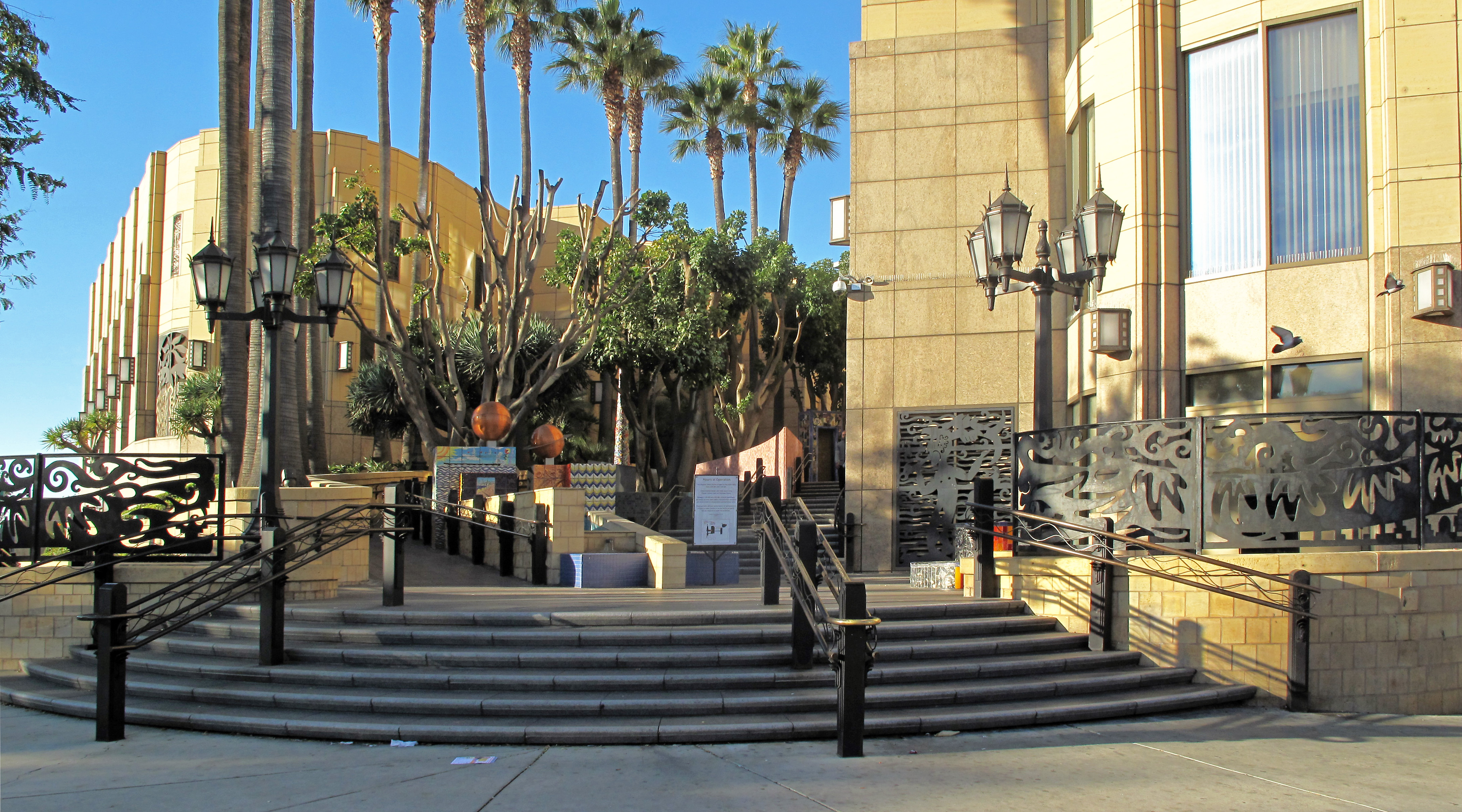 Entrance to the Patsaouras Transit Plaza of Los Angeles Union Station, from Vignes Street. This plaza with its adjacent Metro headquarters is one of the most attractive public spaces in the city, but the plaza will be demolished in the upcoming Union Station Master Plan redesign.